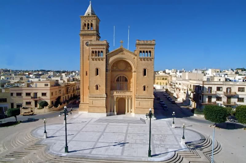 Malta